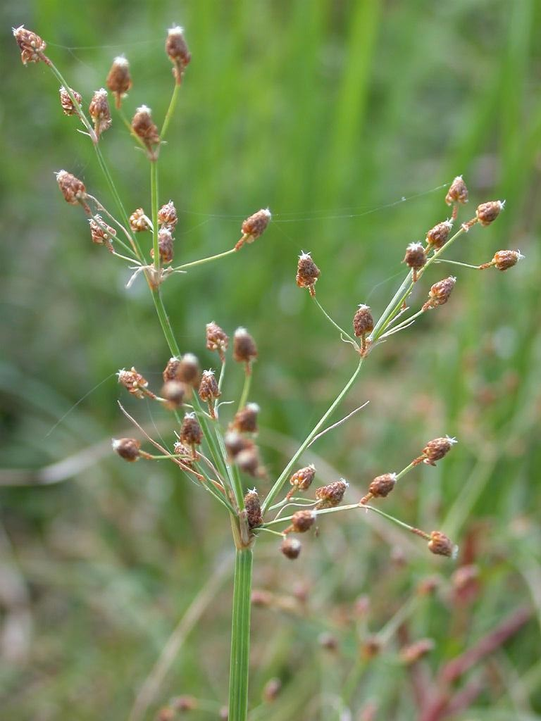 Fimbristylis miliacea (Cyperaceae) Japanese name: Hideriko Date;2007,10.15;Tanabe city, Wakayama prefecture, Japan Author;Keisotyo